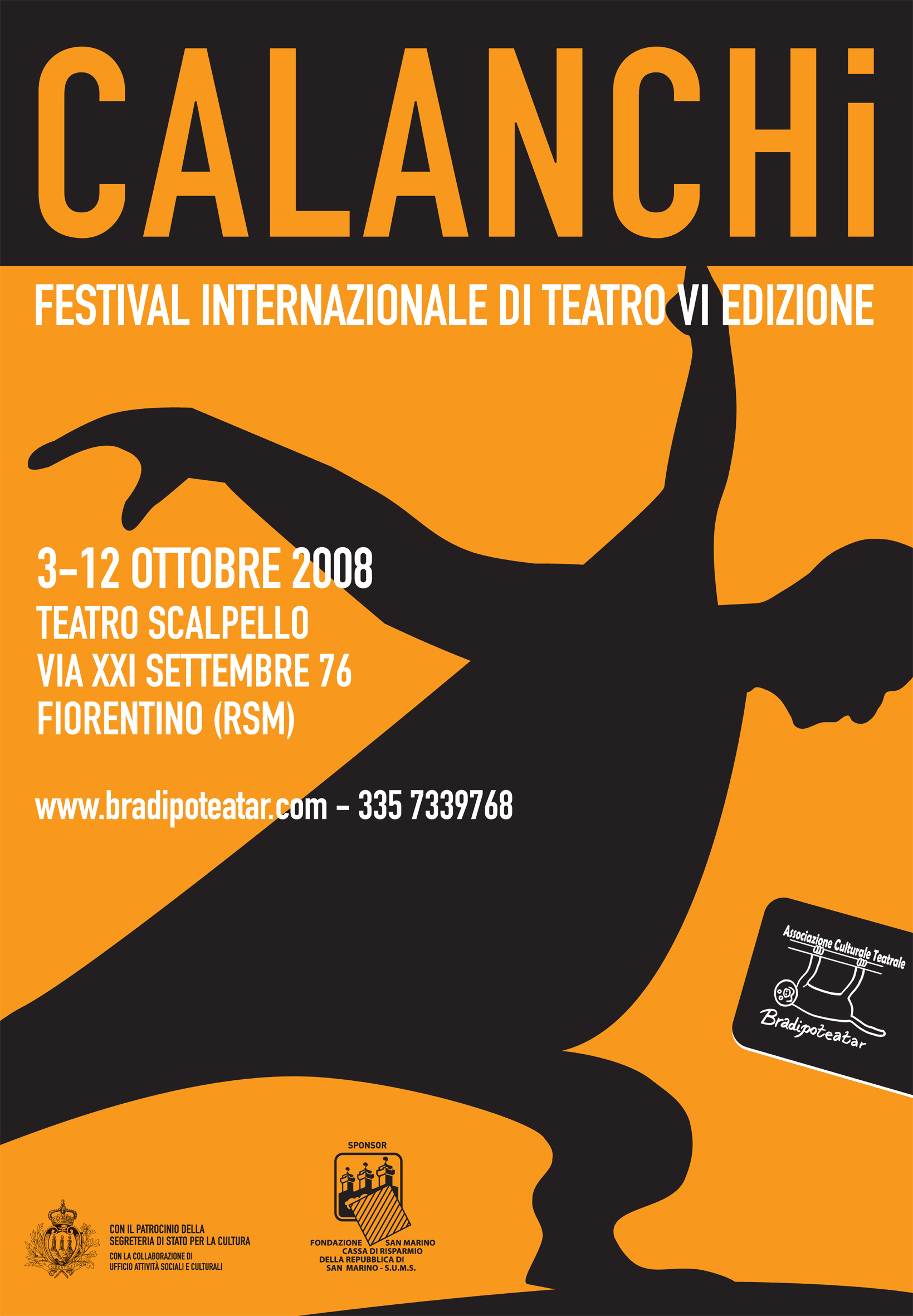 International Theatre Festival Calanchi